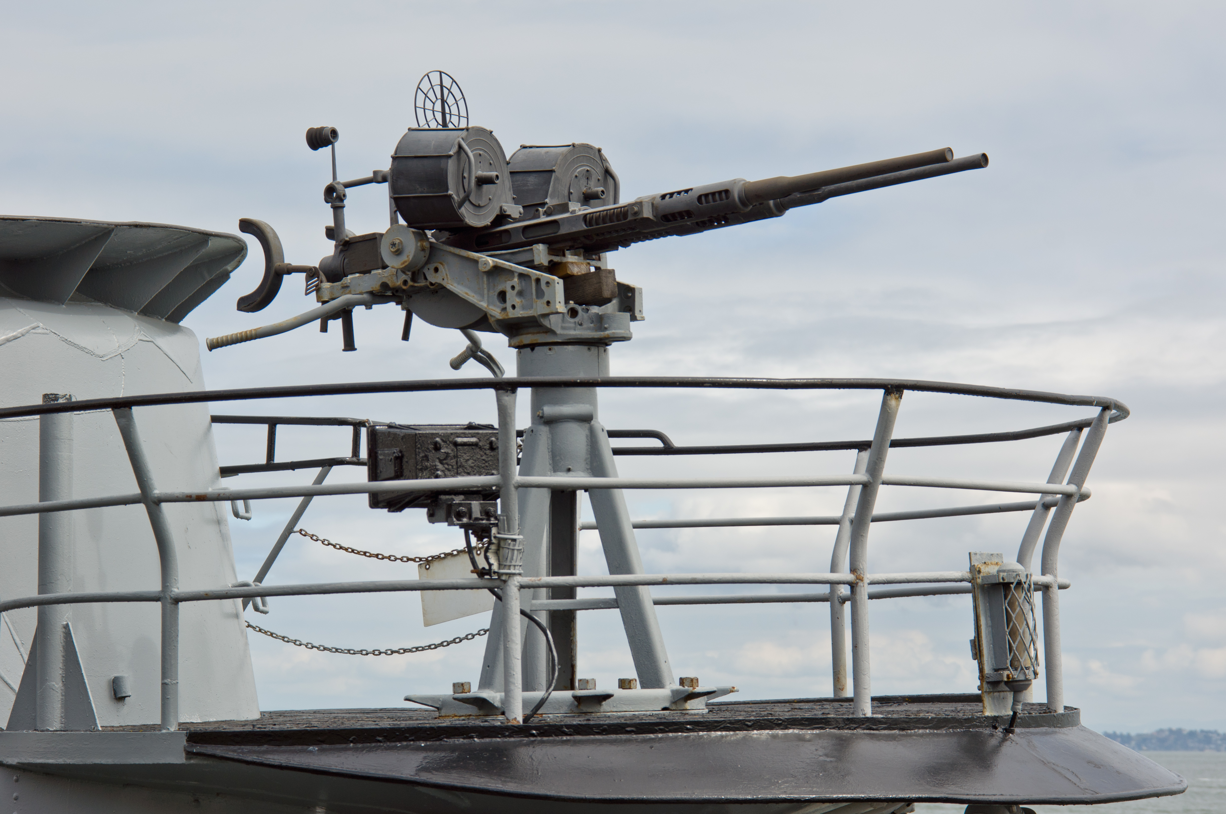 USS Pampanito (SS-383) submarine, Pier 45, San Francisco, California, USA.